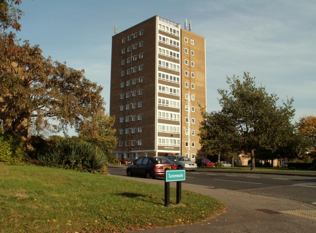 Pennymead Tower